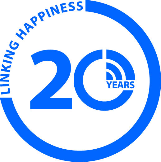 As WorldLink completed its glorious 20 years in ISP industry, the logo was created to signify what company primarily did to people in this long years. We have tremendously helped and are helping to enrich lives of people through connectivity.